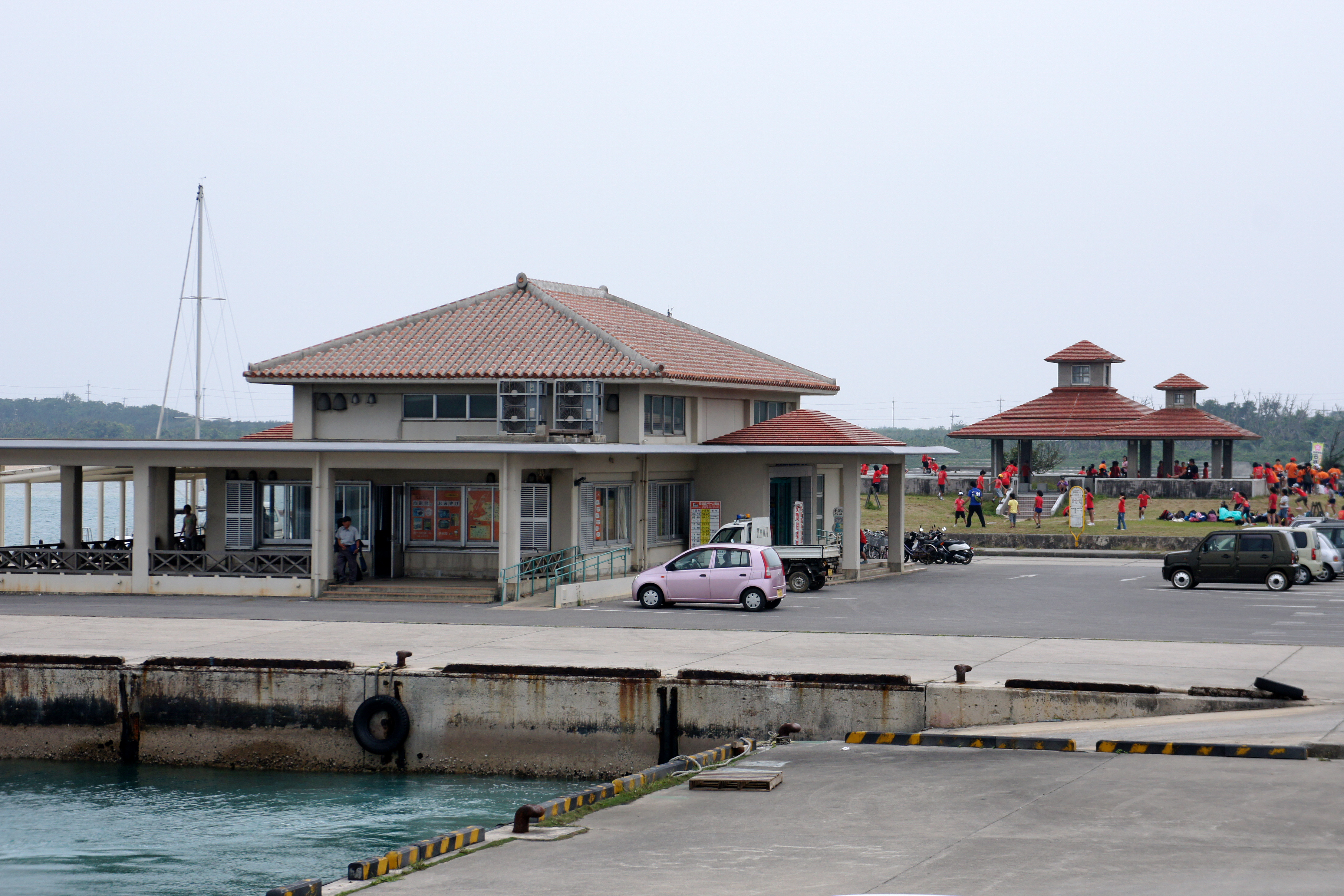 at Kohama Port in Kohamajima, Taketomi Town, Okinawa Prefecture, Japan.